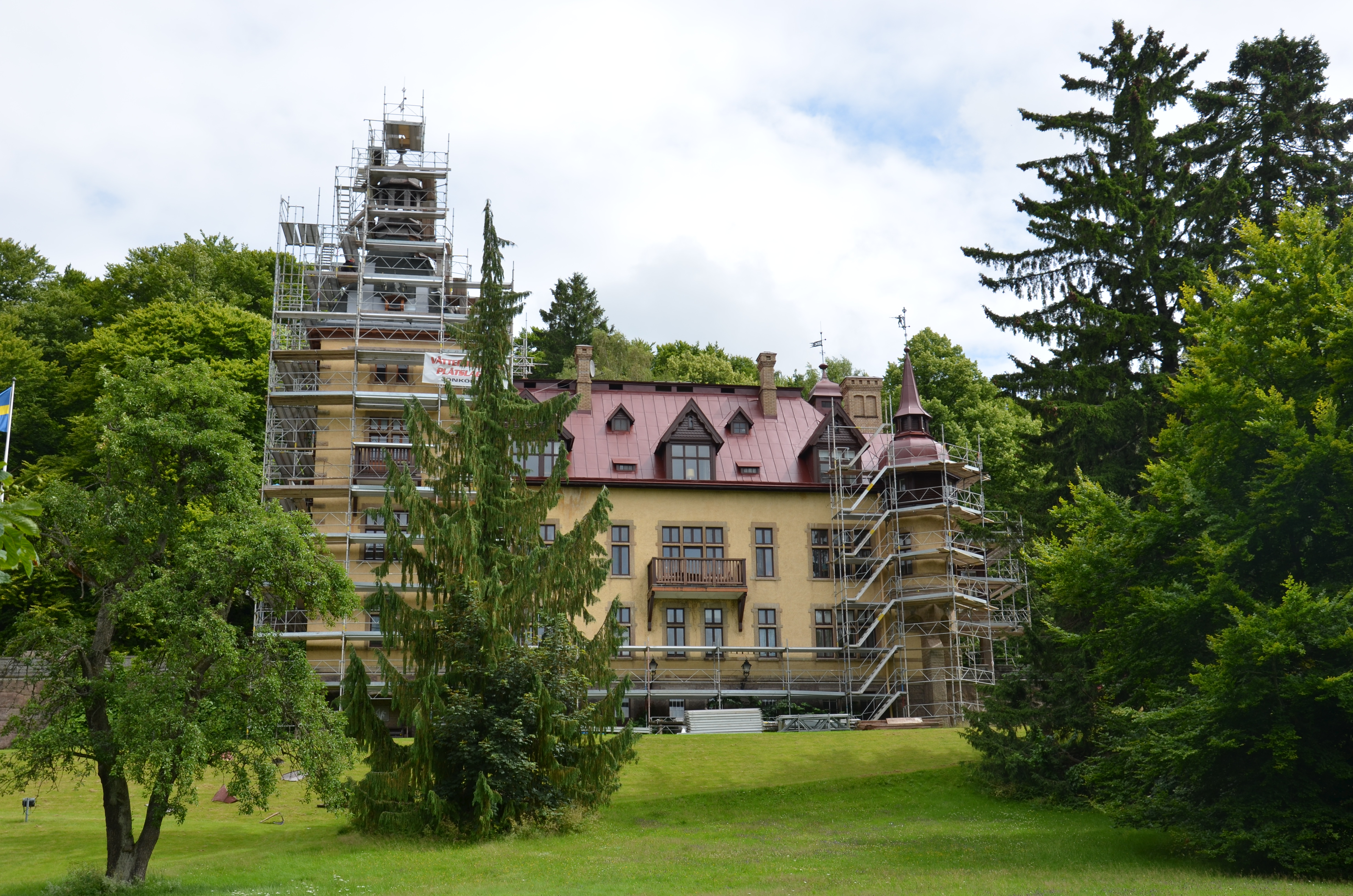 Slottsvillan in Huskvarna, Sweden.